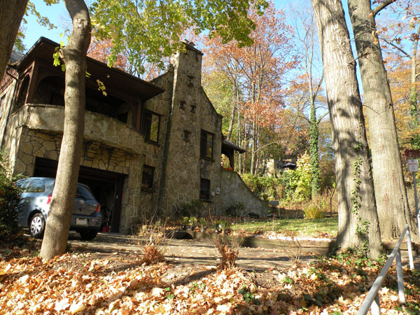 Picture of a house in the Sauer Buildings Historic District located between 607-717 Center Avenue in Aspinwall, Pennsylvania, on November 7, 2009. Designed by Frederick C. Sauer (1860–1942), these buildings were an eccentric and personal project of the Pittsburgh area architect, and made in a style called fantastic architecture. Sauer first built a house and outbuildings for himself on this land around 1898. Though, after remodeling his chicken coop in an eccentric mode in 1928 and 1930, a complex of buildings and landscape features in similar style gradually took shape and was progressively added to by Sauer until his death in 1942. These buildings are listed on the National Register of Historic Places.